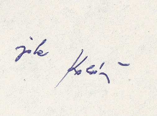 Signature of the Czech poet and visual artist Jiří Kolář